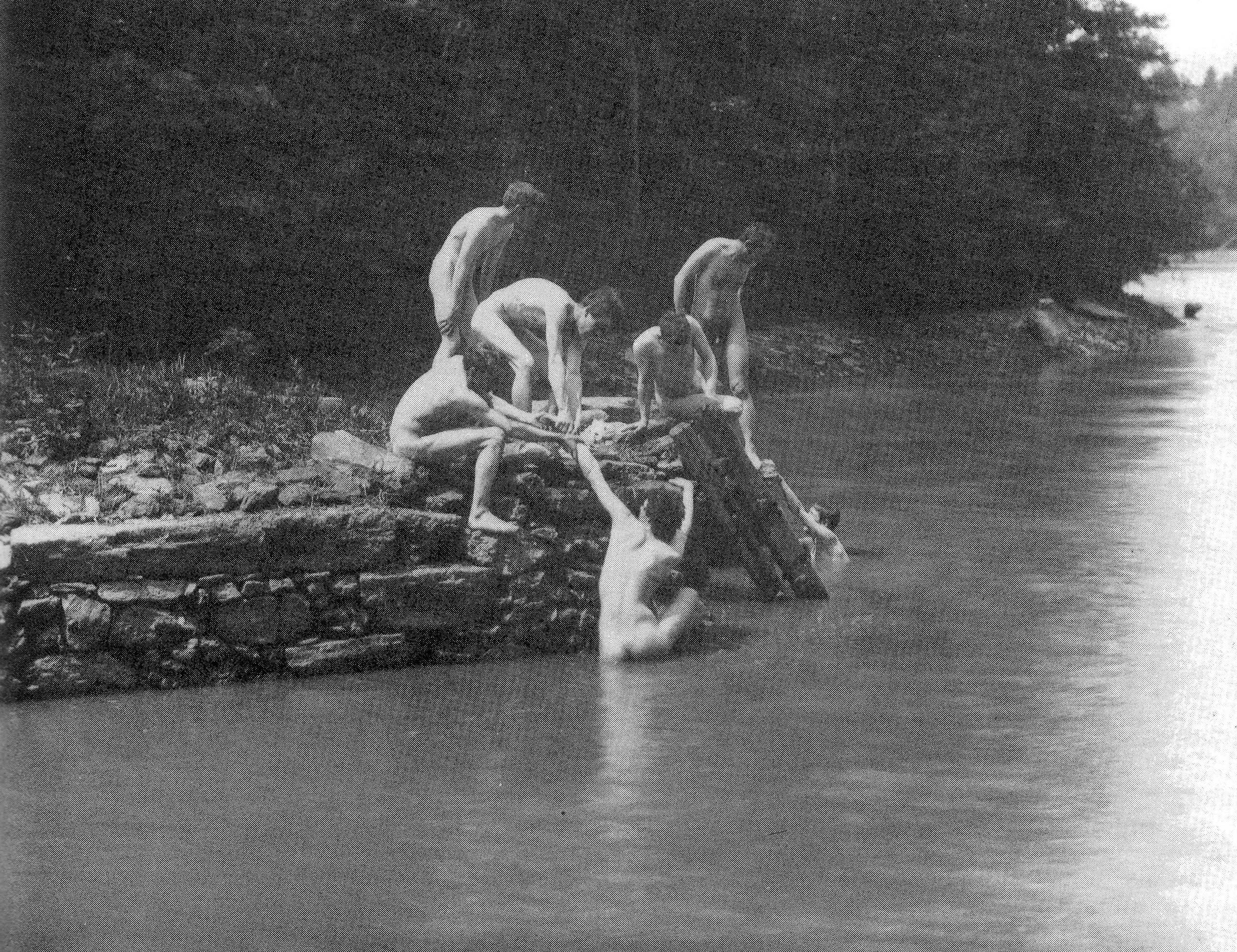 Thomas Eakins' circle of friends skinning dipping in Dove Lake, PA. Made in preparation for Eakin's The Swimming Hole.